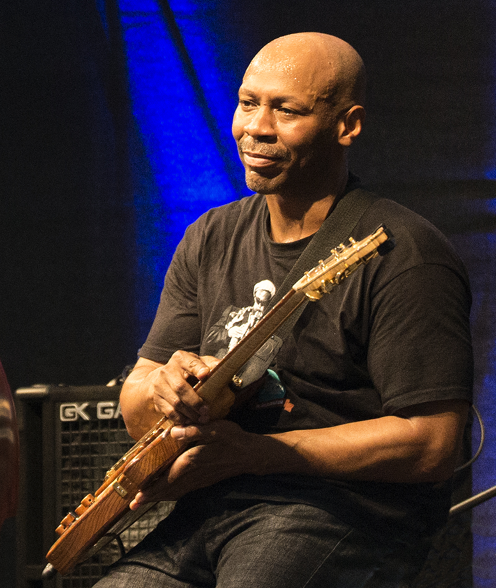 Jazz musician Kevin Eubanks at Wuppertal, July 2014